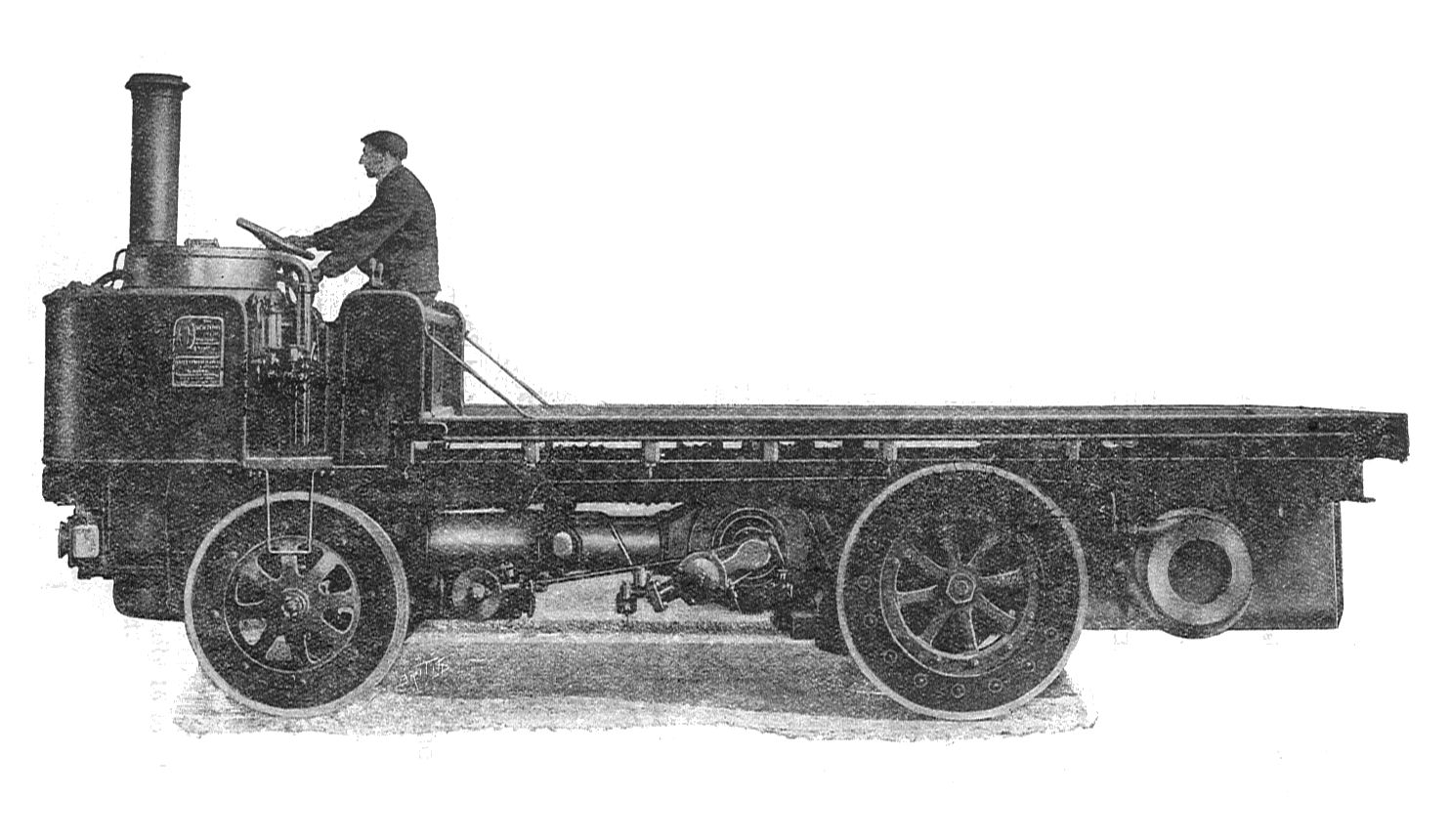 Alley & McLellan steam wagon (Army Service Corps Training, Mechanical Transport, 1911).jpg